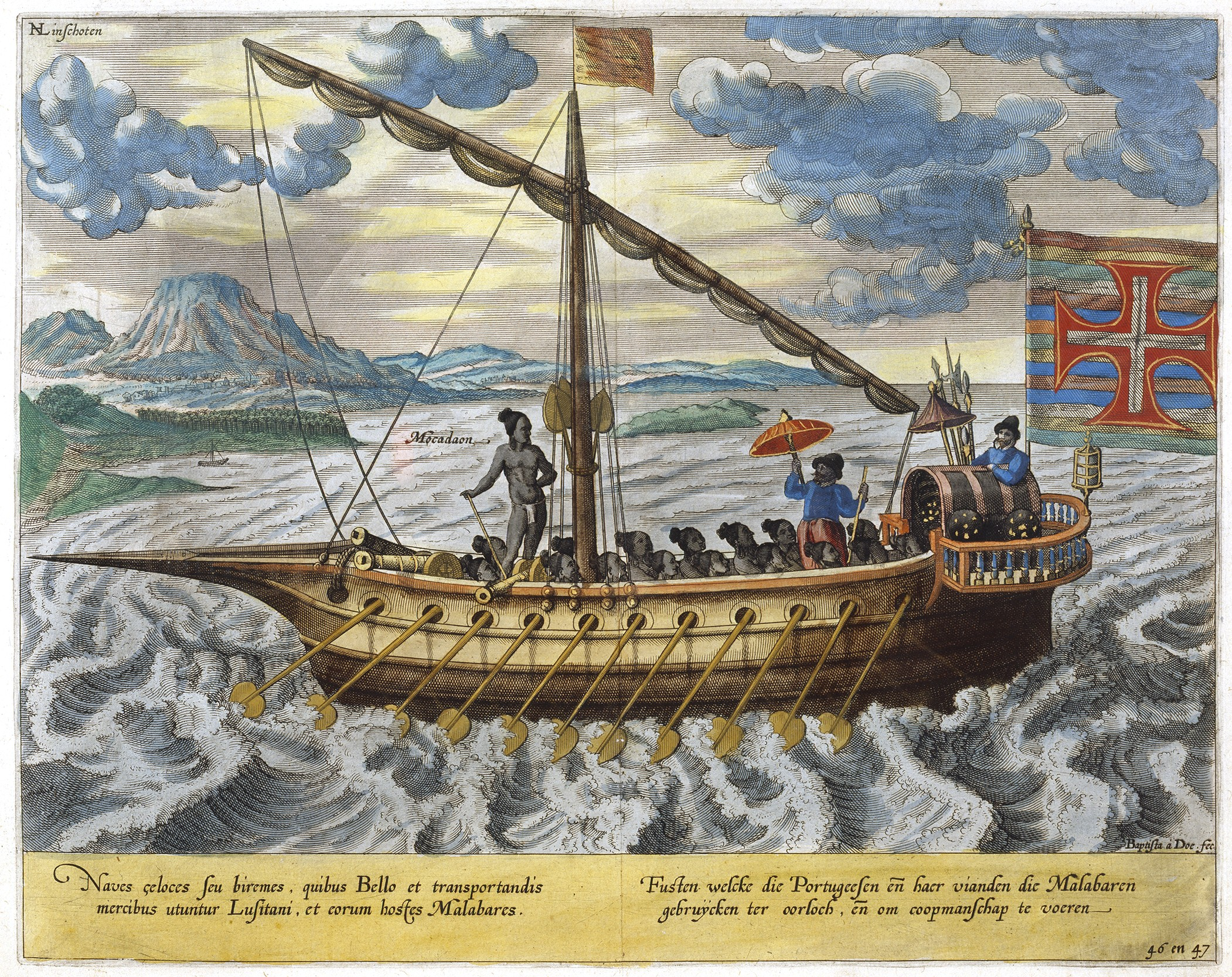 Fusta with Portuguese pavilion in a hand-colored engraving from Jan Huygen Linschoten's Itinerario. The caption says in